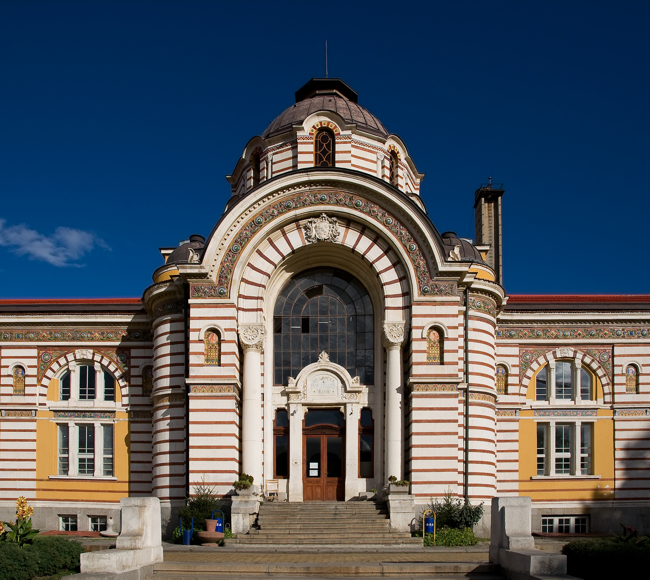 The main entrance of the Public Mineral Baths in Sofia, Bulgaria. Designed by the architects Friedrich Grünanger and Petko Momchilov. Built 1904-1913.